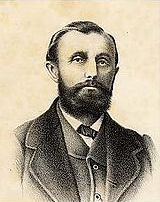 Gustav Wallis, plant collector